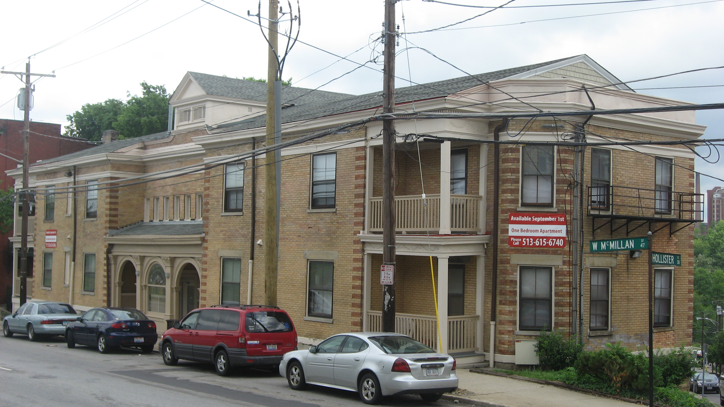 Front of the Melbourne Flats, located at 39 W. McMillan Street in Cincinnati, Ohio, United States. Built in 1898, it is listed on the National Register of Historic Places.